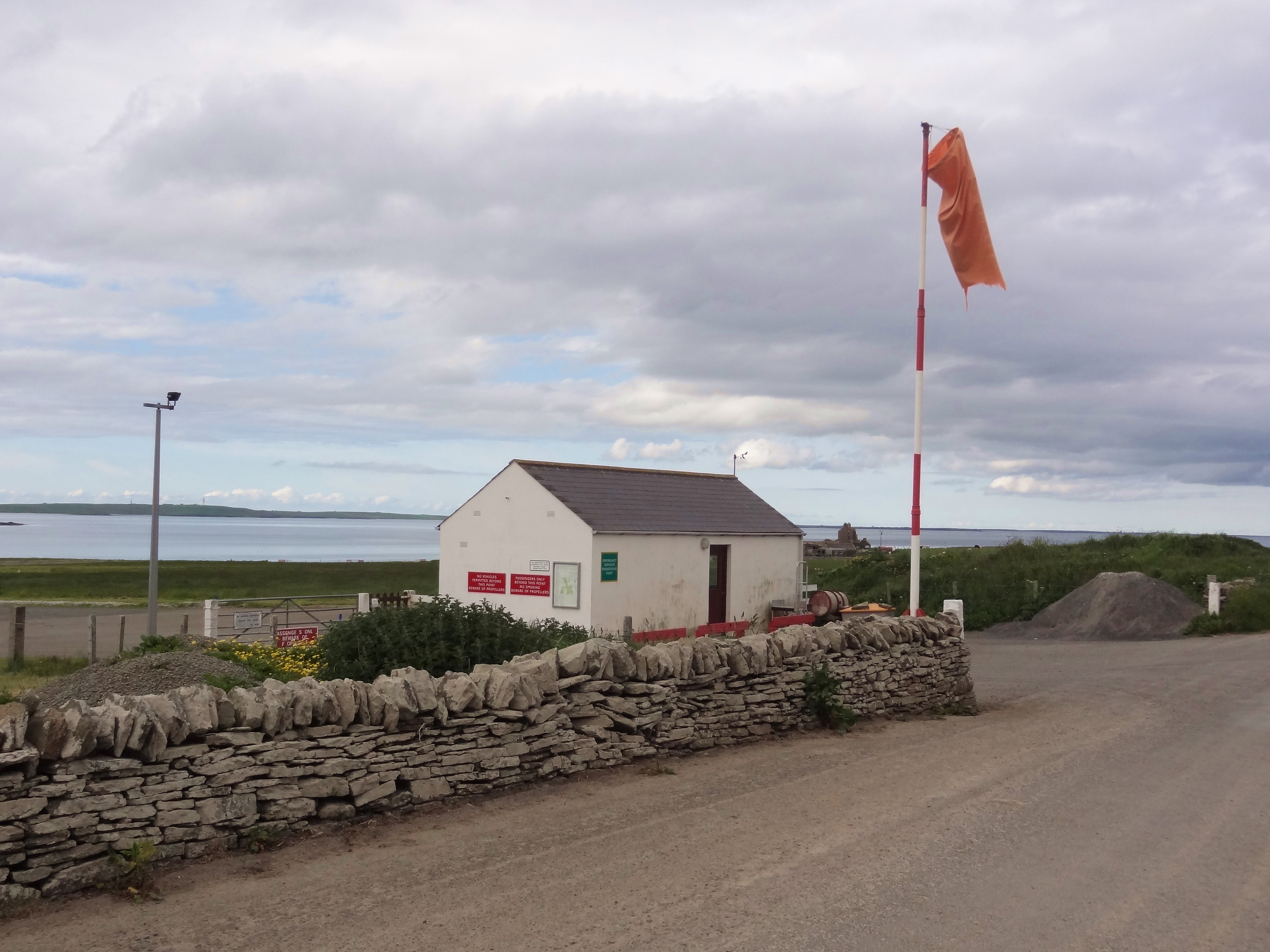 Stronsay International